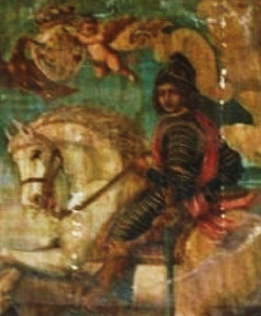 Painting of Diogo.